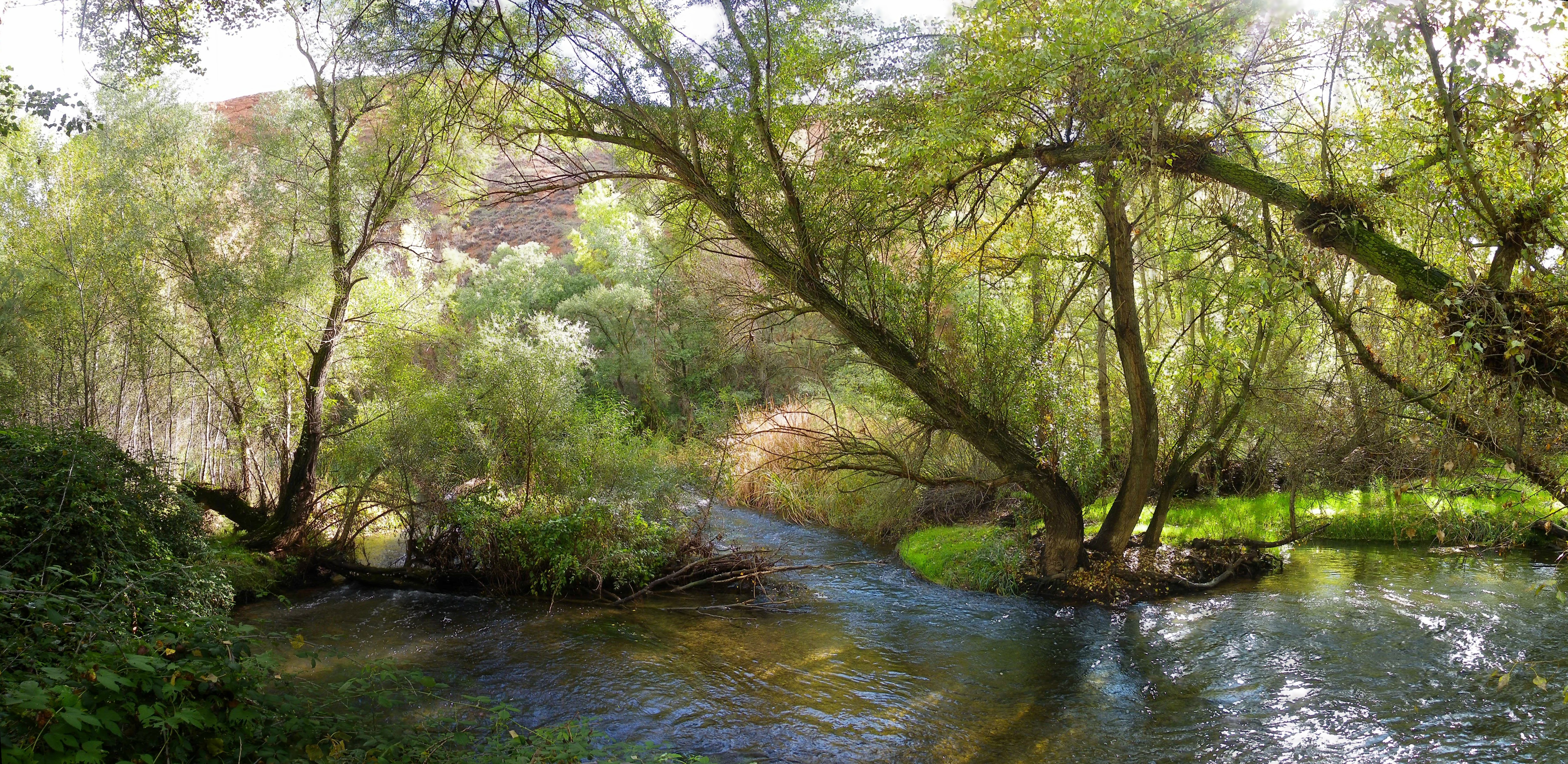 This is a photography of a Site of Community Importance in Spain with the ID: ES4240003. Natura2000 entry, EEA entry